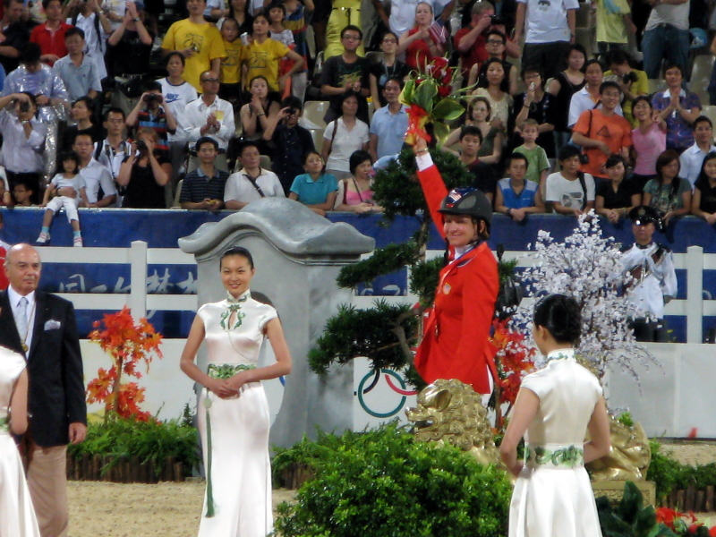 2008 Olympic Games equestrian in Sha Tin